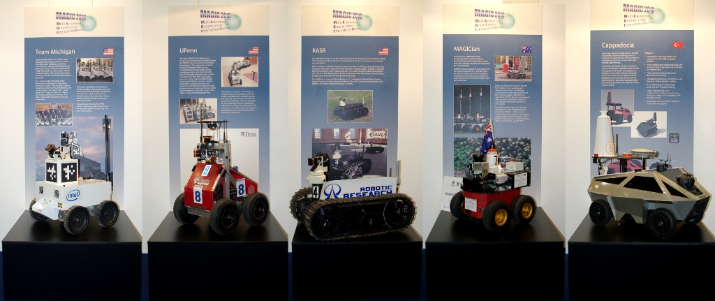 MAGIC 2010 autonomous mobile robots. Michigan, UPenn, RASR, Magician WAMbot, Cappadocia